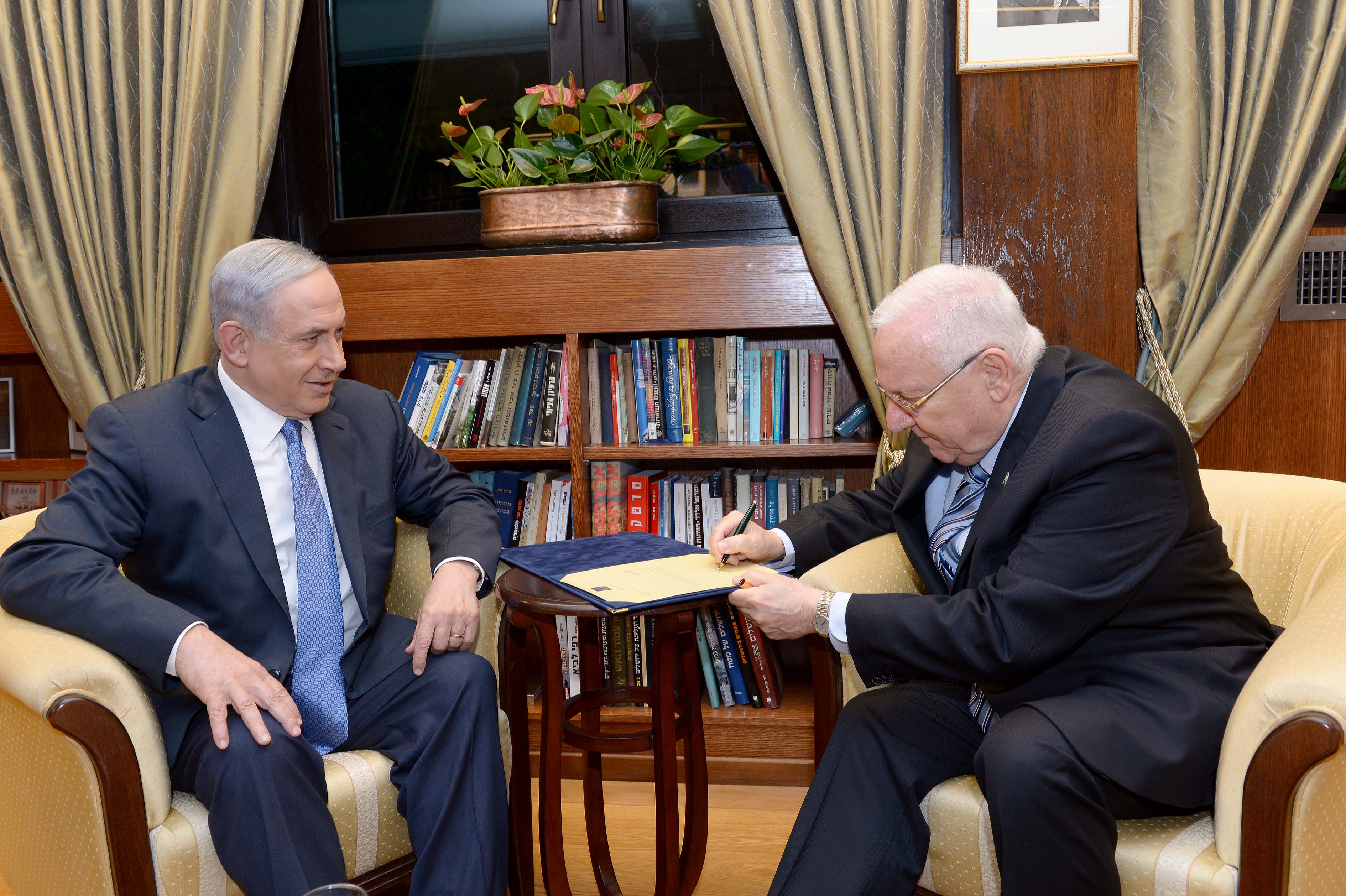 President Reuven Rivlin signs a letter of appointment the task of forming the new government on Prime Minister Benjamin Netanyahu in an official ceremony held at the President's dinner